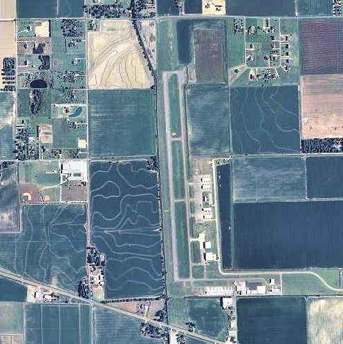 USGS digital orthophoto of Cleveland Municipal Airport in Mississippi